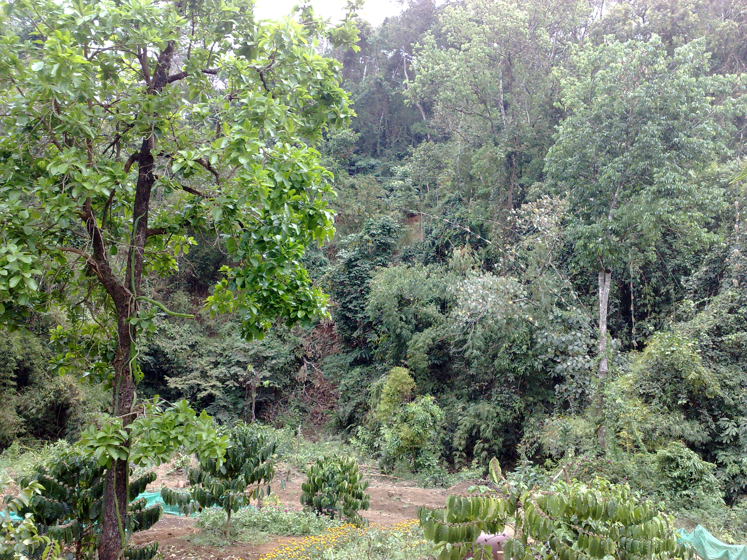 Forest near the town of Sen Monorom in Cambodia's eastern Mondulkiri province. Picture taken on 16 March 2011.